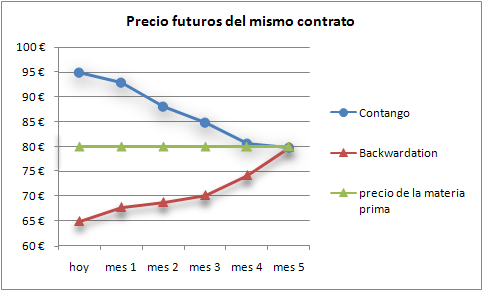 contango